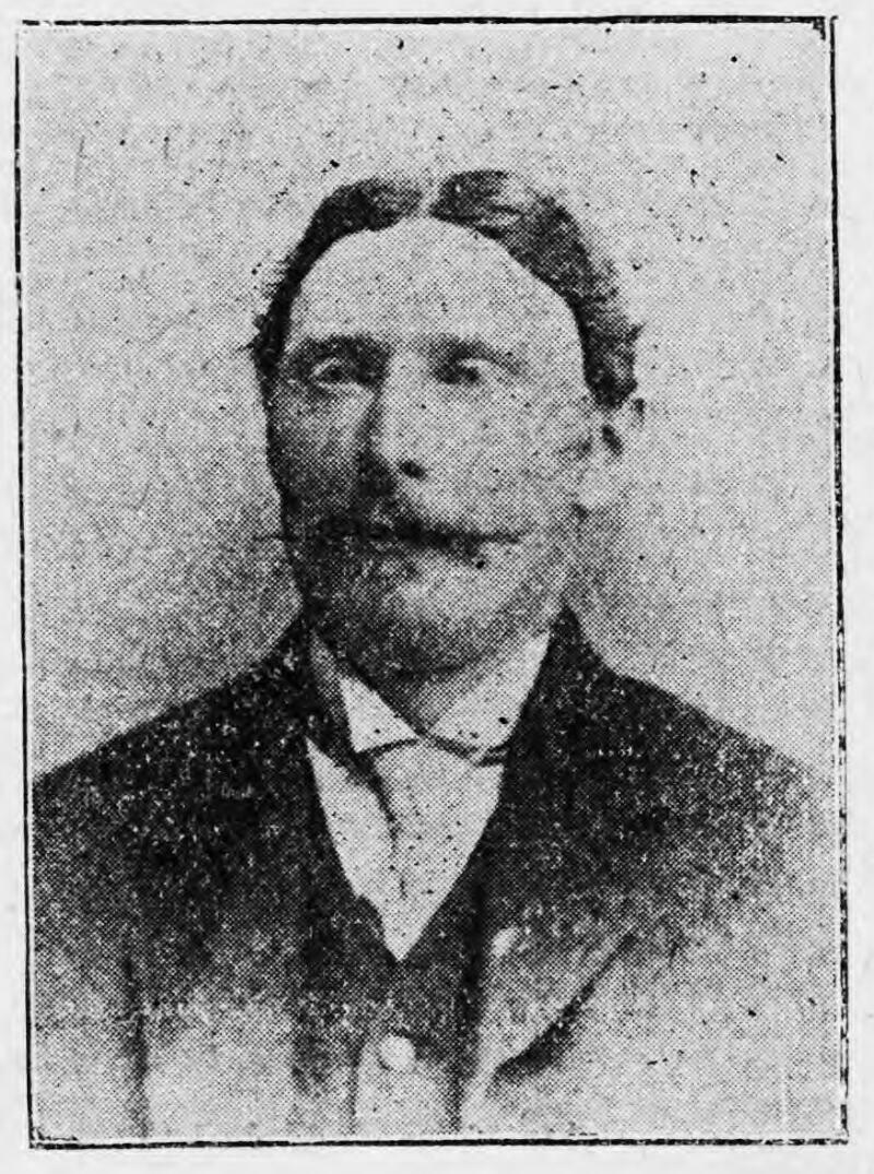 Image of Charles Ashton, published in Weekly Mail, 21st October 1899.